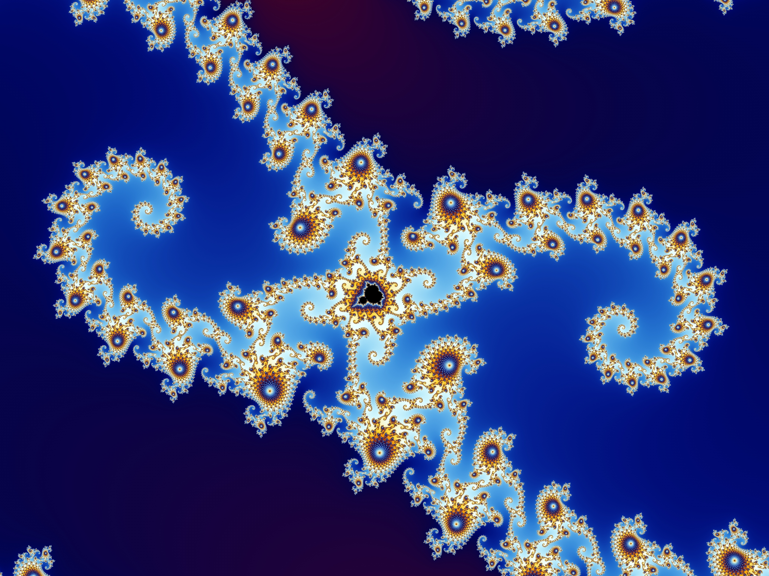 Partial view of the Mandelbrot set. Step 6 of a zoom sequence: Satellite. The two "seahorse tails" are the beginning of a series of concentrical crowns with the satellite in the center. Coordinates of the center: Re(c) = -.743,640,85, Im(c) = .131,827,33 Horizontal diameter of the image: .000,120,68 Magnification relative to the initial image: 25,497 Created by Wolfgang Beyer with the program Ultra Fractal 3. Uploaded by the creator.